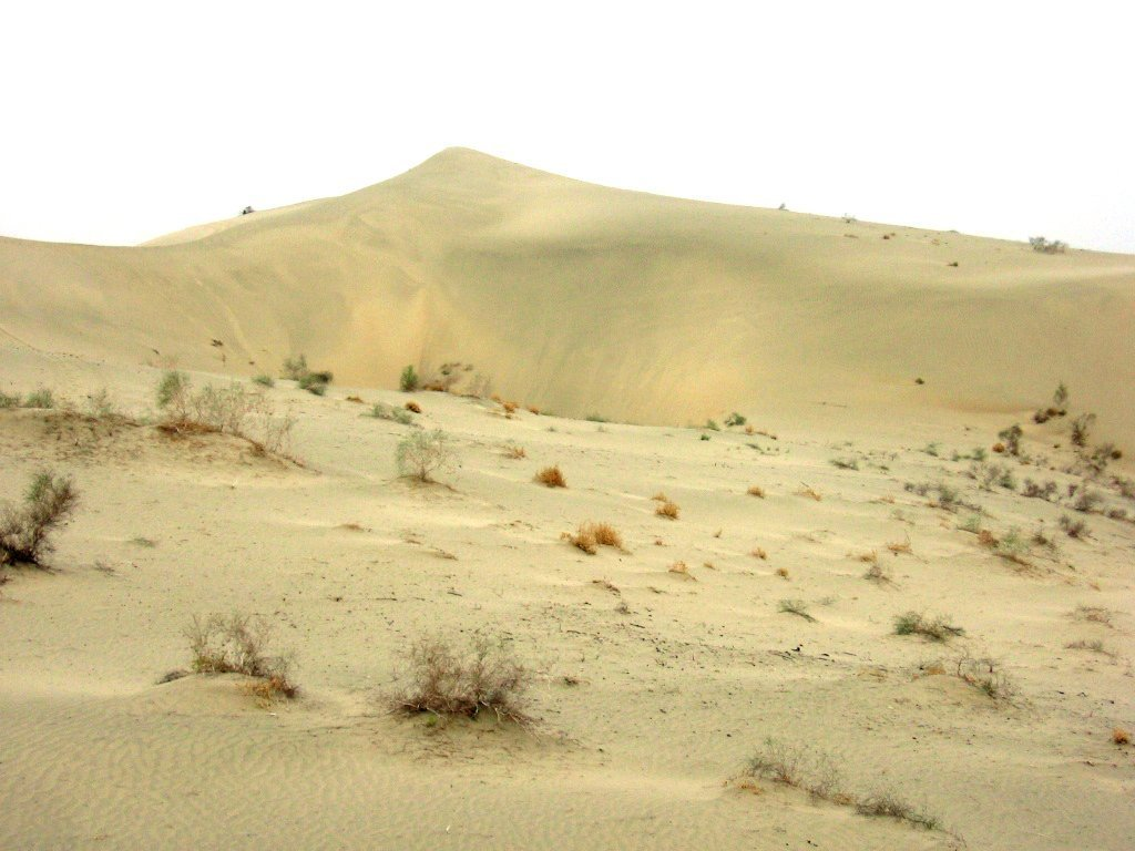 Landscape in Taklamakan desert near Yarkand, Autonomous Region of Xinjiang, China.